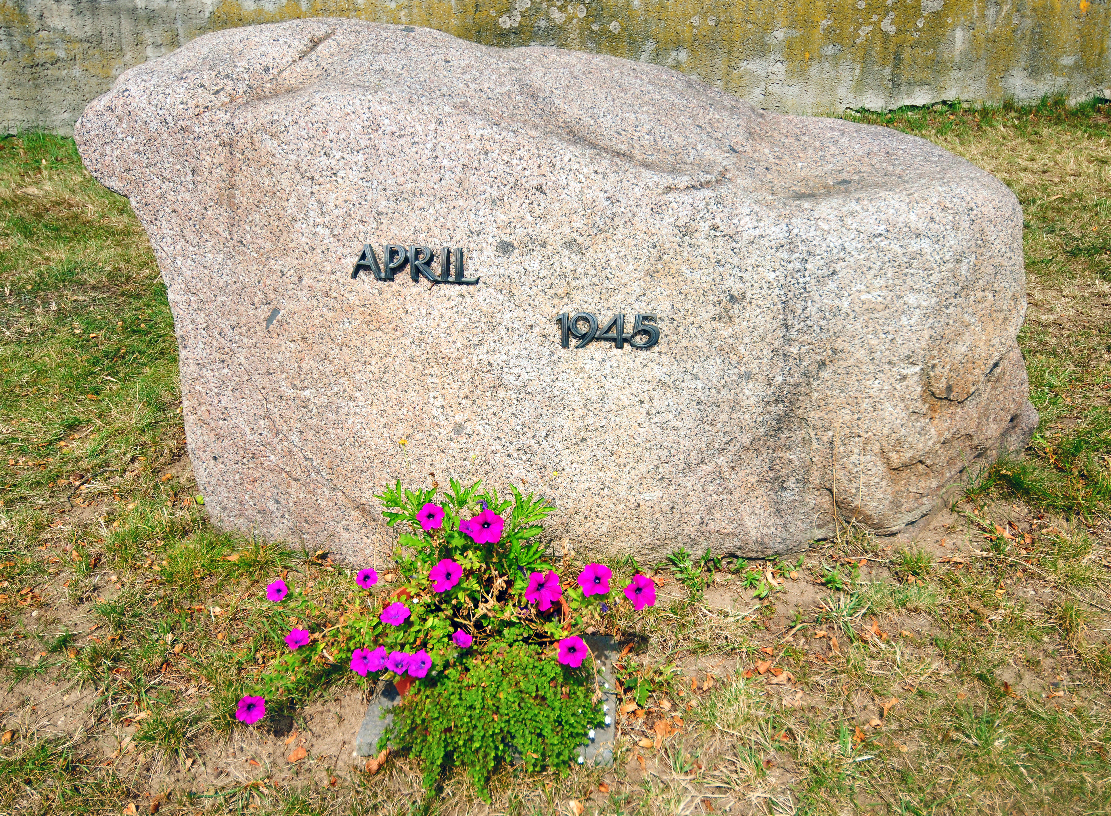 Memorial stone April 1945 in Lorenzkirch (Zeithain, Saxony, Germany. It remembers also to the meeting of the Elbe Day, April 25, 1945 in Lorenzkirch.